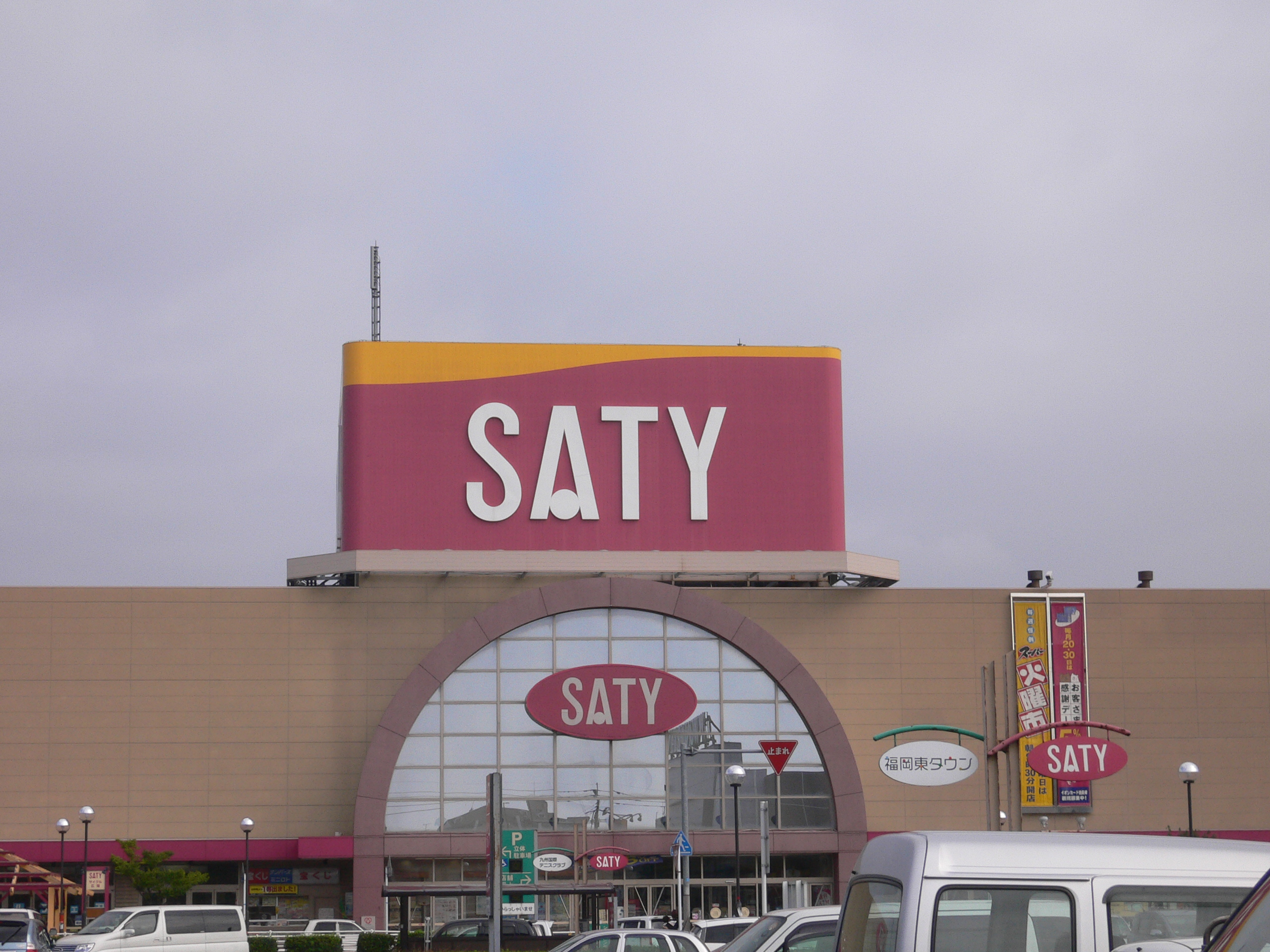 This is a shopping center in Shime-town.